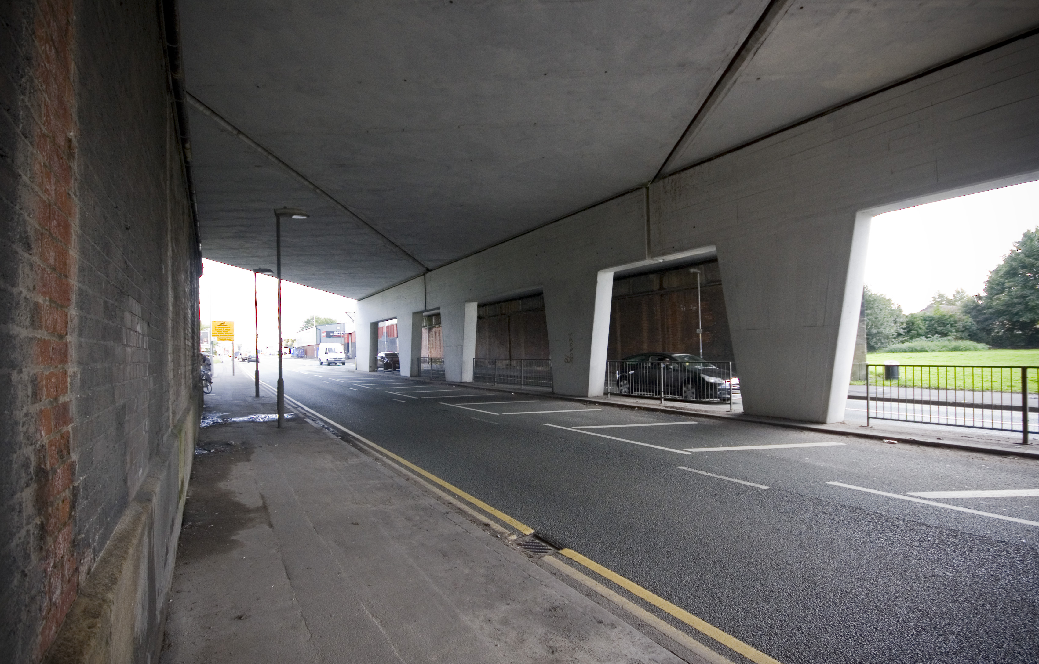 The location of the Fenian Ambush that led to the murder of a policeman, and the execution of three men.